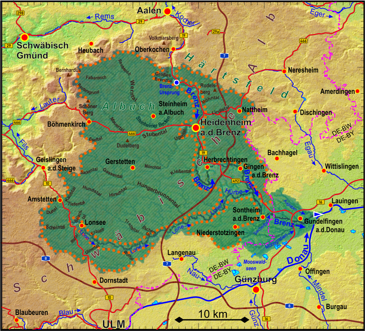 Catchment area of the Brenz river. Within the hatched area almost no surface runoffs exist. Major dry valley are labeled.